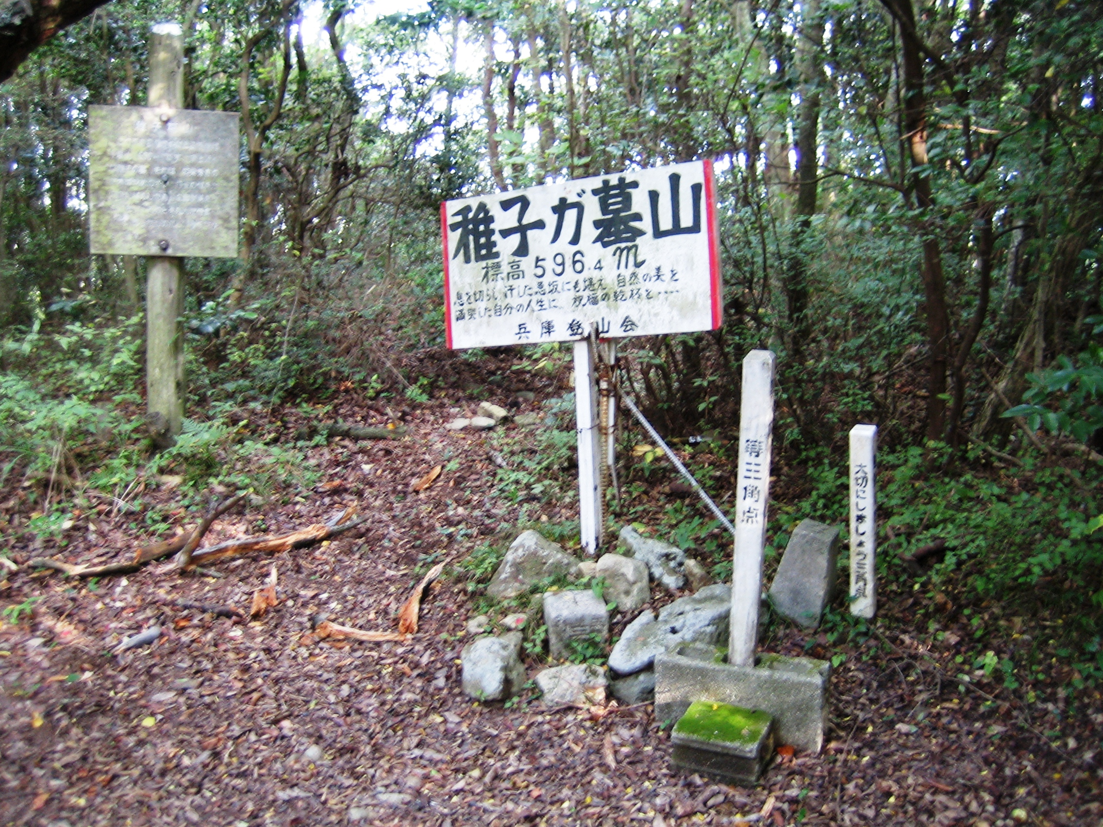 The top of Mount Chigogahaka, of Tanjo Mountains, a part of Rokko Mountains, Hyogo, Honshu, Japan.